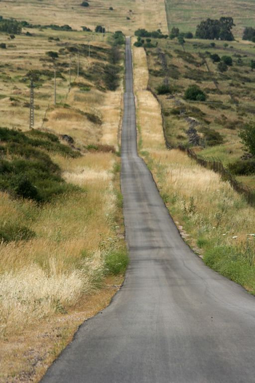 Oil Route, Golan Heights Photo by beivushtang